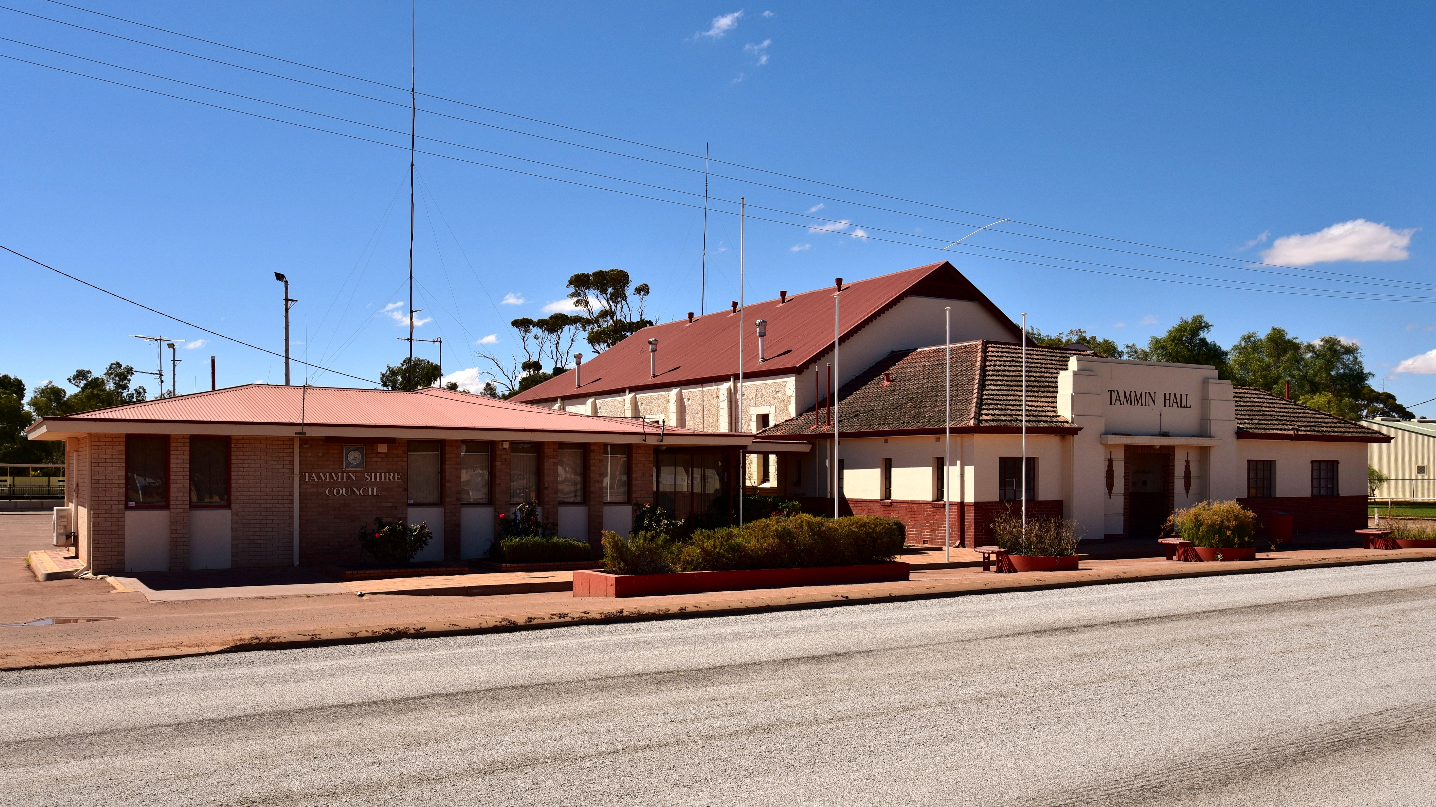 View of (L-R) the Tammin shire offices and the Tammin Town Hall, Donnan Street, Tammin, Western Australia